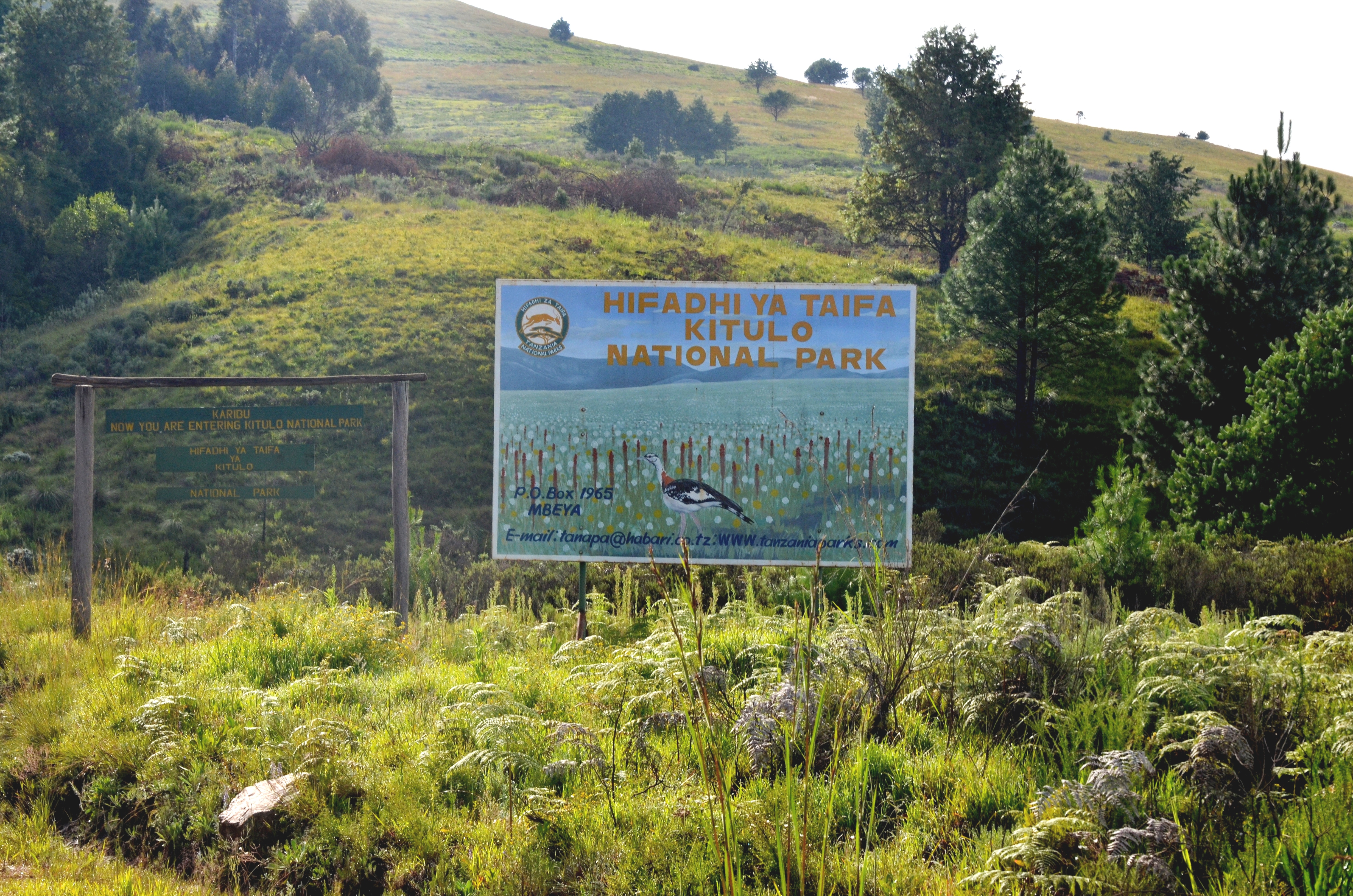 A sign at the border of the Kitulo National Park in the South-West of Tanzania.